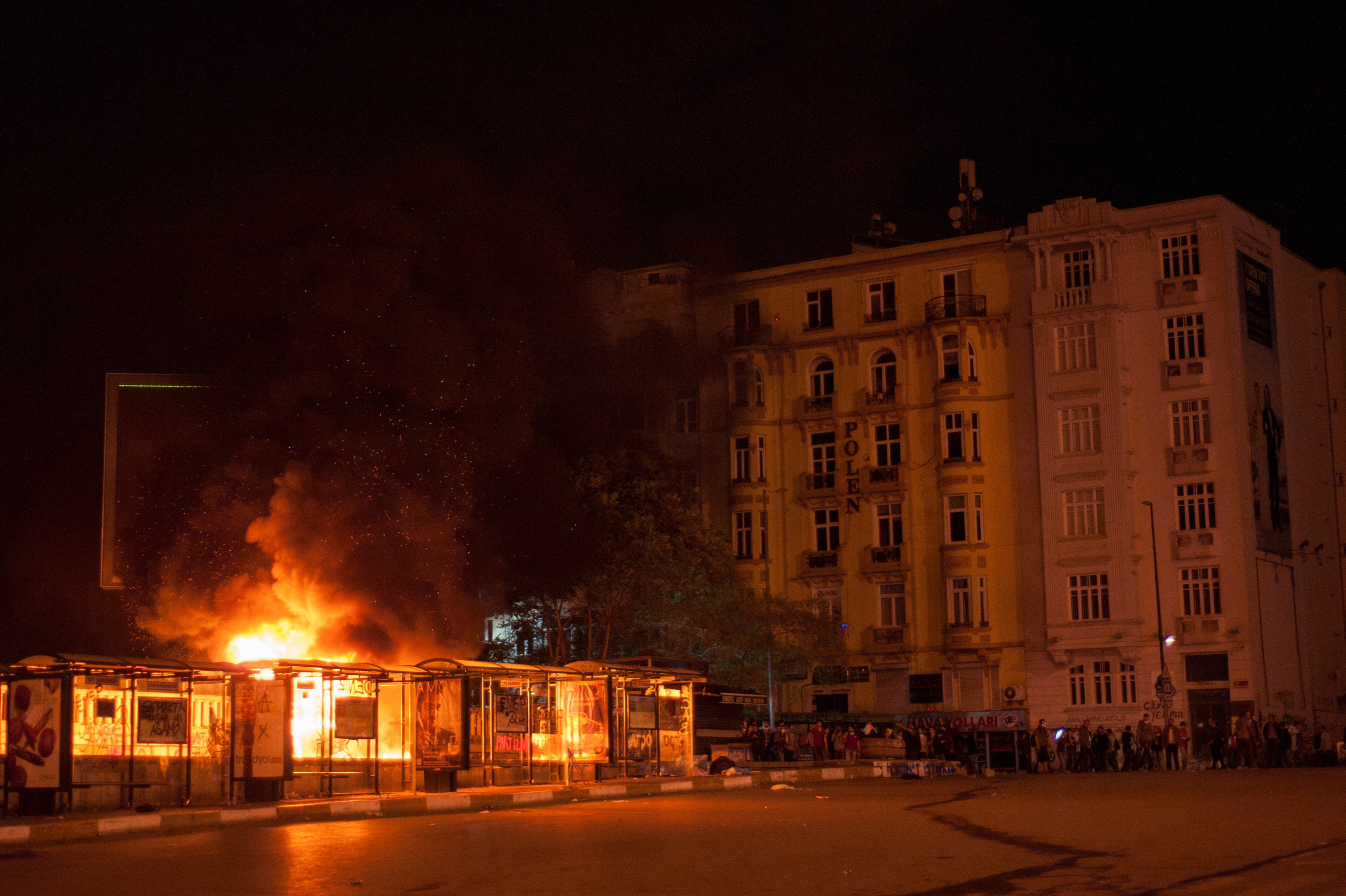 Taksim square night fires. Events of June 3, 2013.